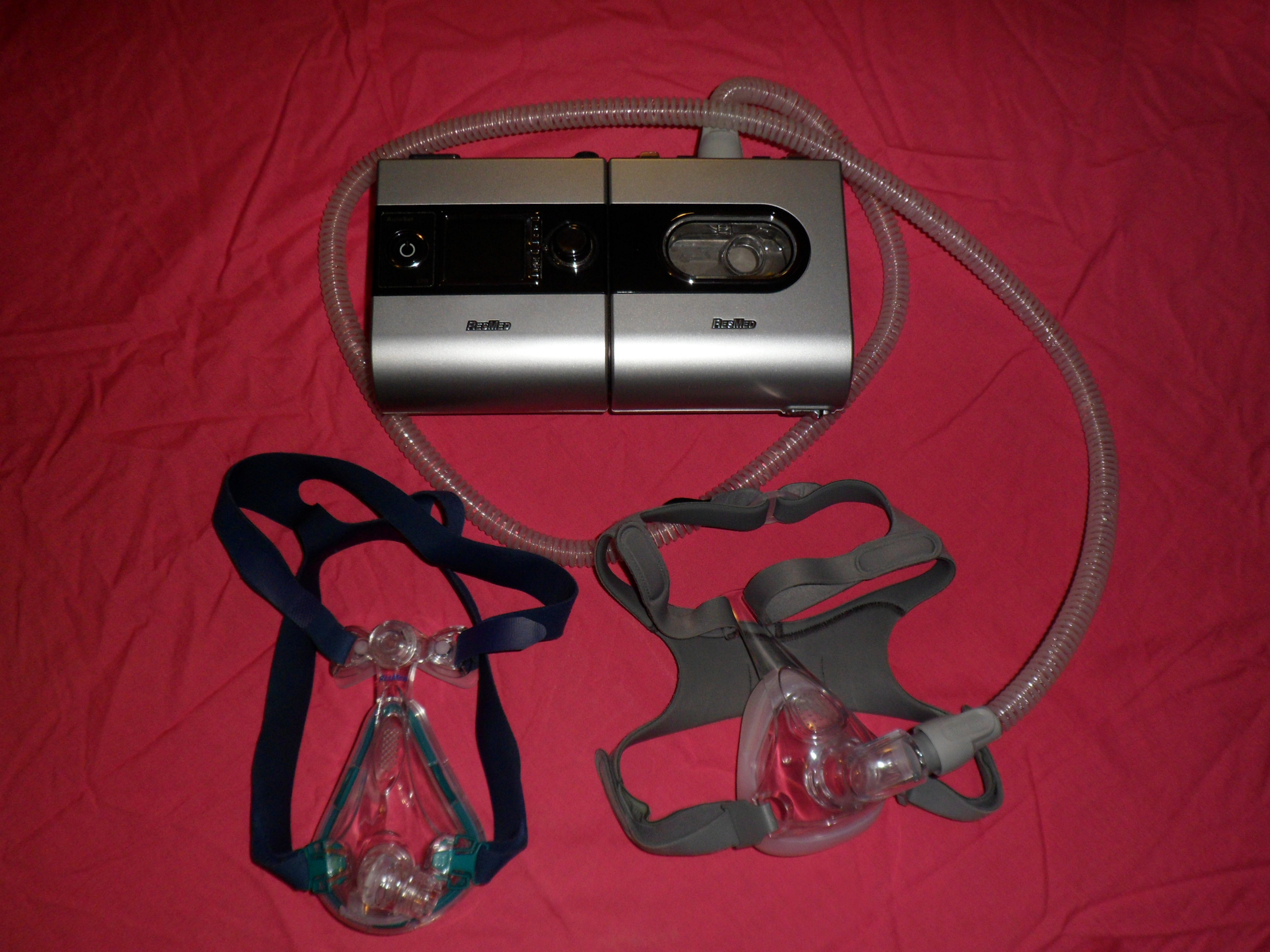 CPAP machine typ S9 with heated humidifier typ H5i (prodeucer: ResMed), with two models of full face masks